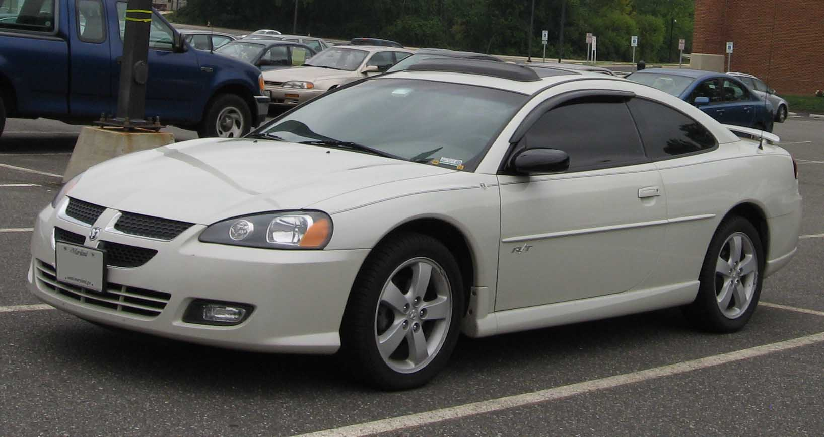 2003-2005 Dodge Stratus photographed in USA.